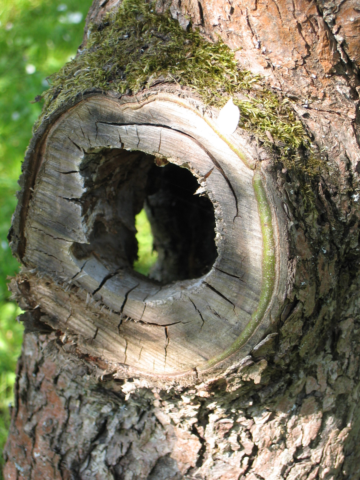 Hollow tree detail shot. This tree was completely hollowed out over the years by insects. One can actually see through the tree by looking into one of the knotholes. Also notice how the remaining tree substance is heavily burst up from the inside. The top of the knothole is covered with moss.